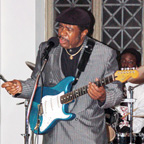 Roy Roberts performing at the Scripture Cake Movie Premiere, 2006